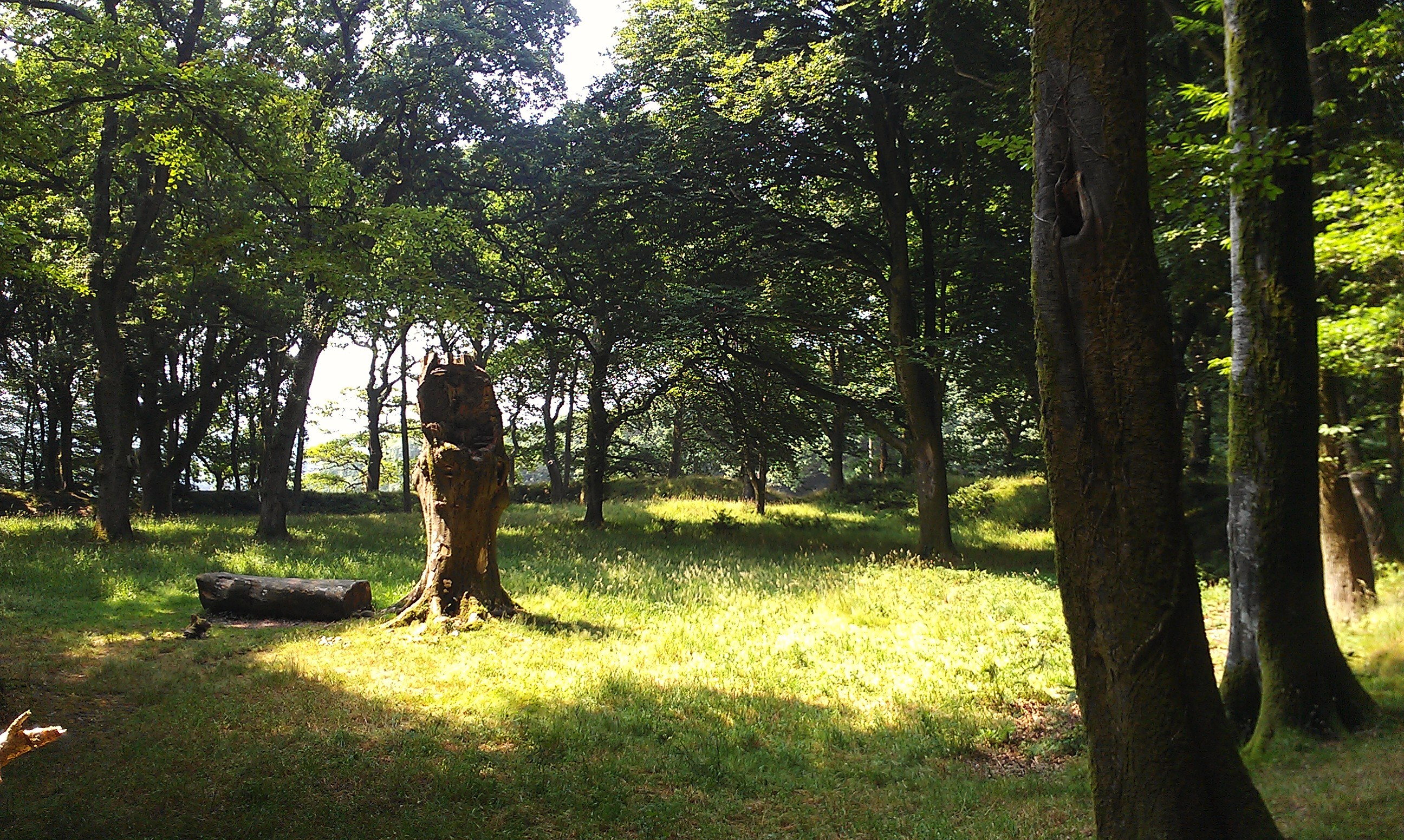 The interior of the Iron Age hillfort at Blackbury Camp.